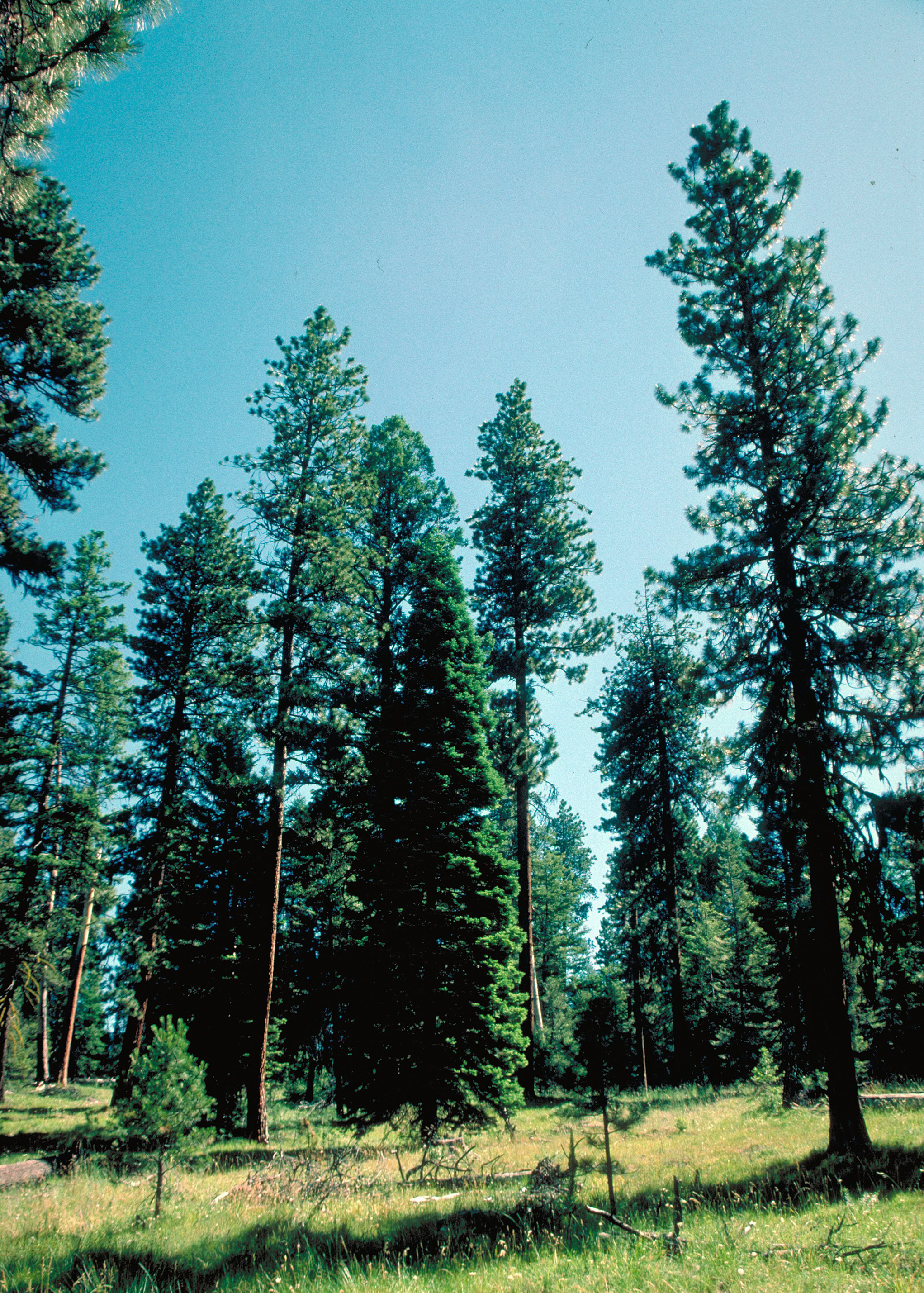 Mixed Pinus ponderosa - Abies concolor forest, Malheur National Forest, Oregon